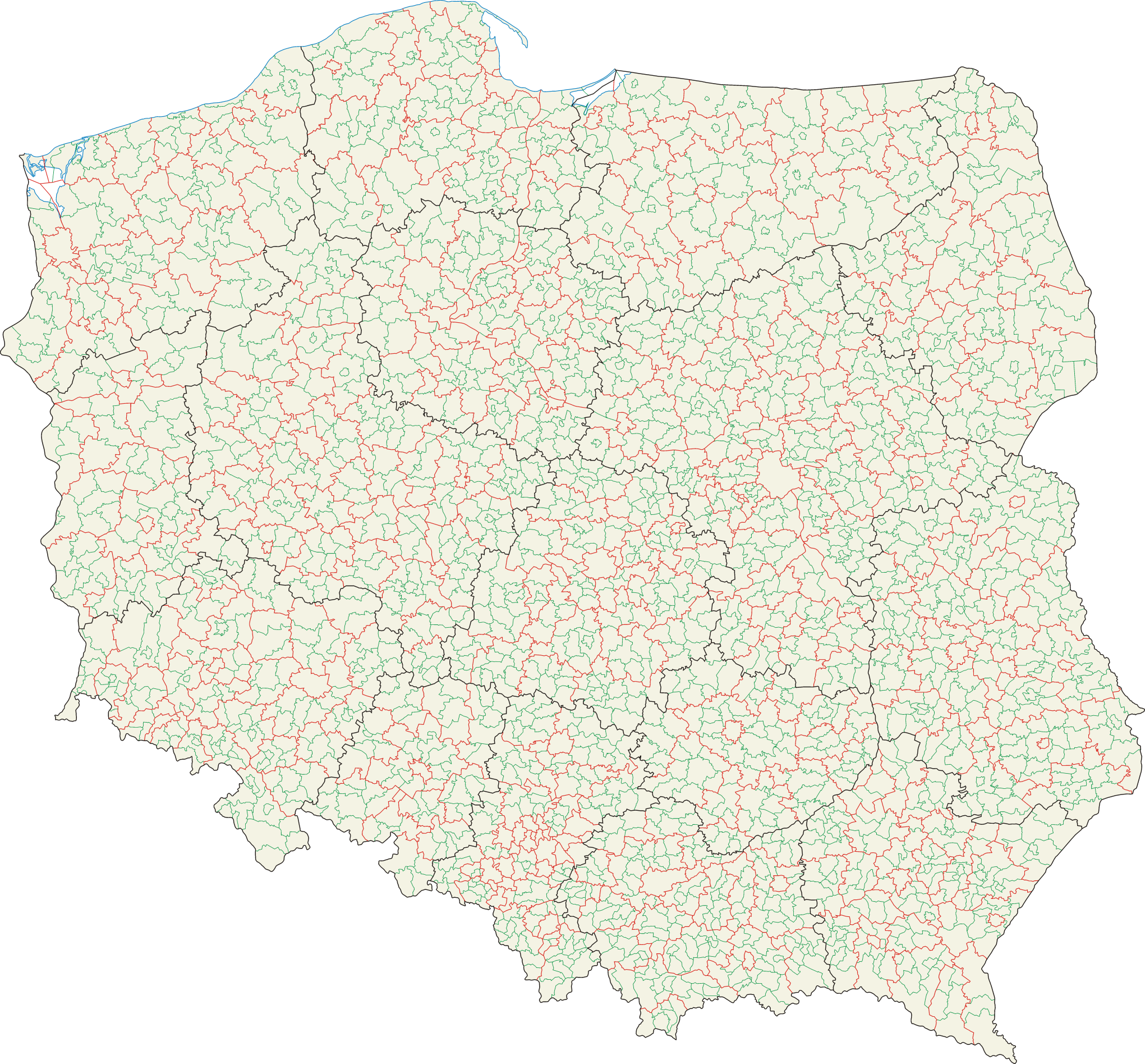 Administrative map of Poland with borders of voievodships (black), counties (red) and communes (green), as of January 1, 2008